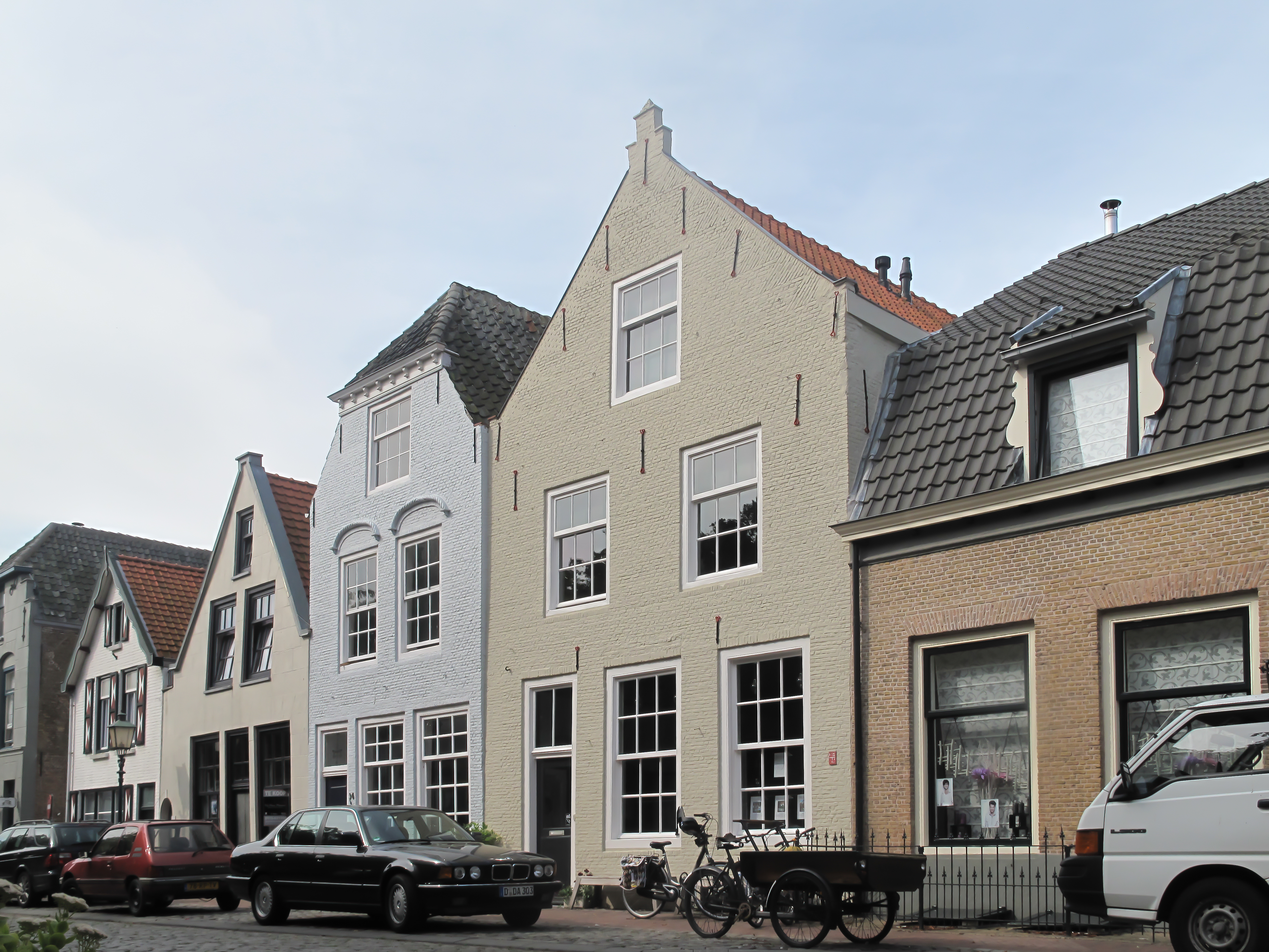 Groede, monumental houses at the Markt